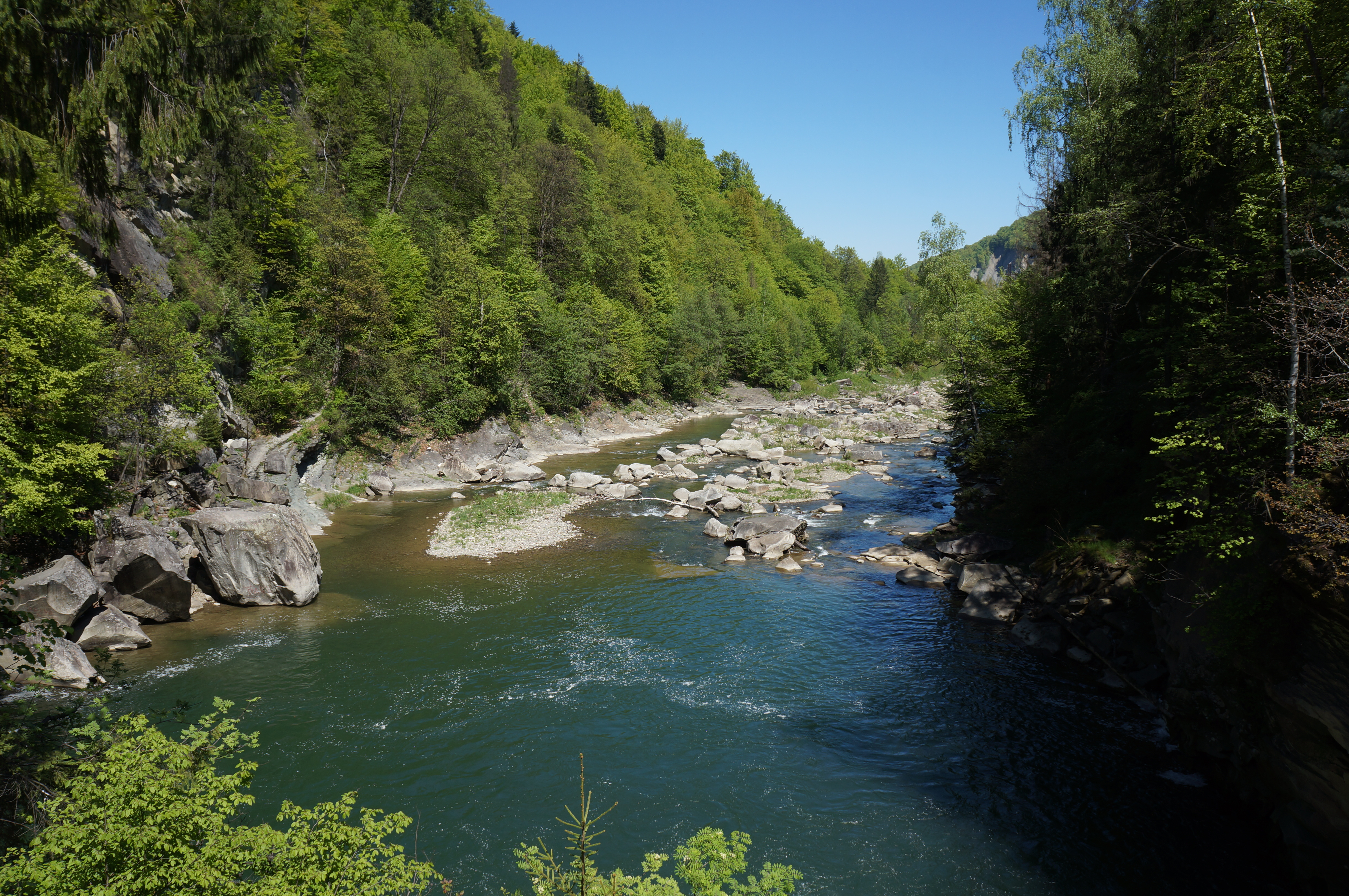 Yaremche, Ukraine